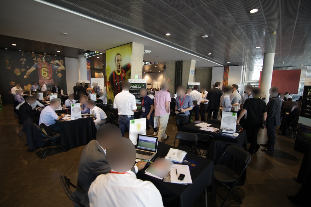 This is a photo that was taken at the Wyscout Forum Summer 2013 Edition, at the Camp Nou stadium, Barcelona. This is an event where FCs can deal together